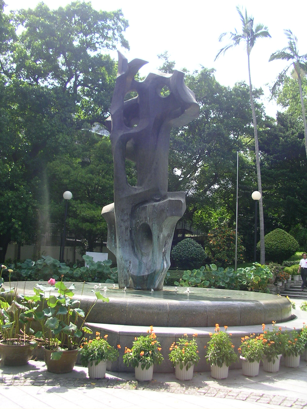 I took this photo in a Park of Macau.